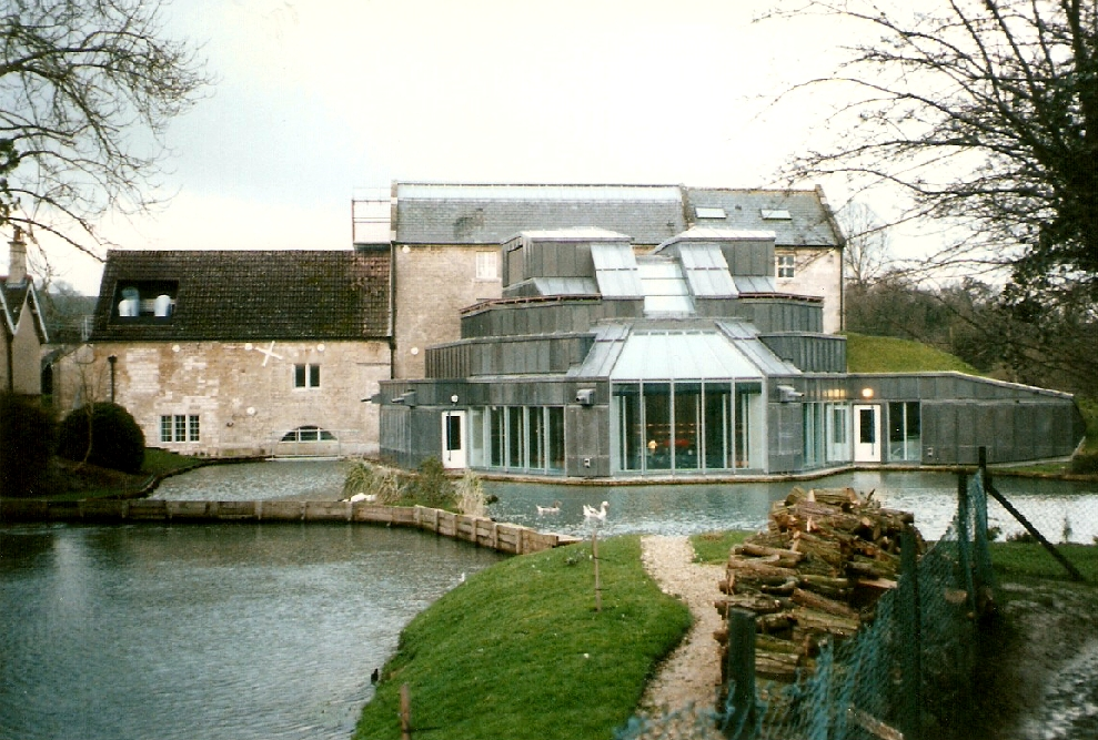 Rear view of Real World Studios, Box, Wiltshire, UK